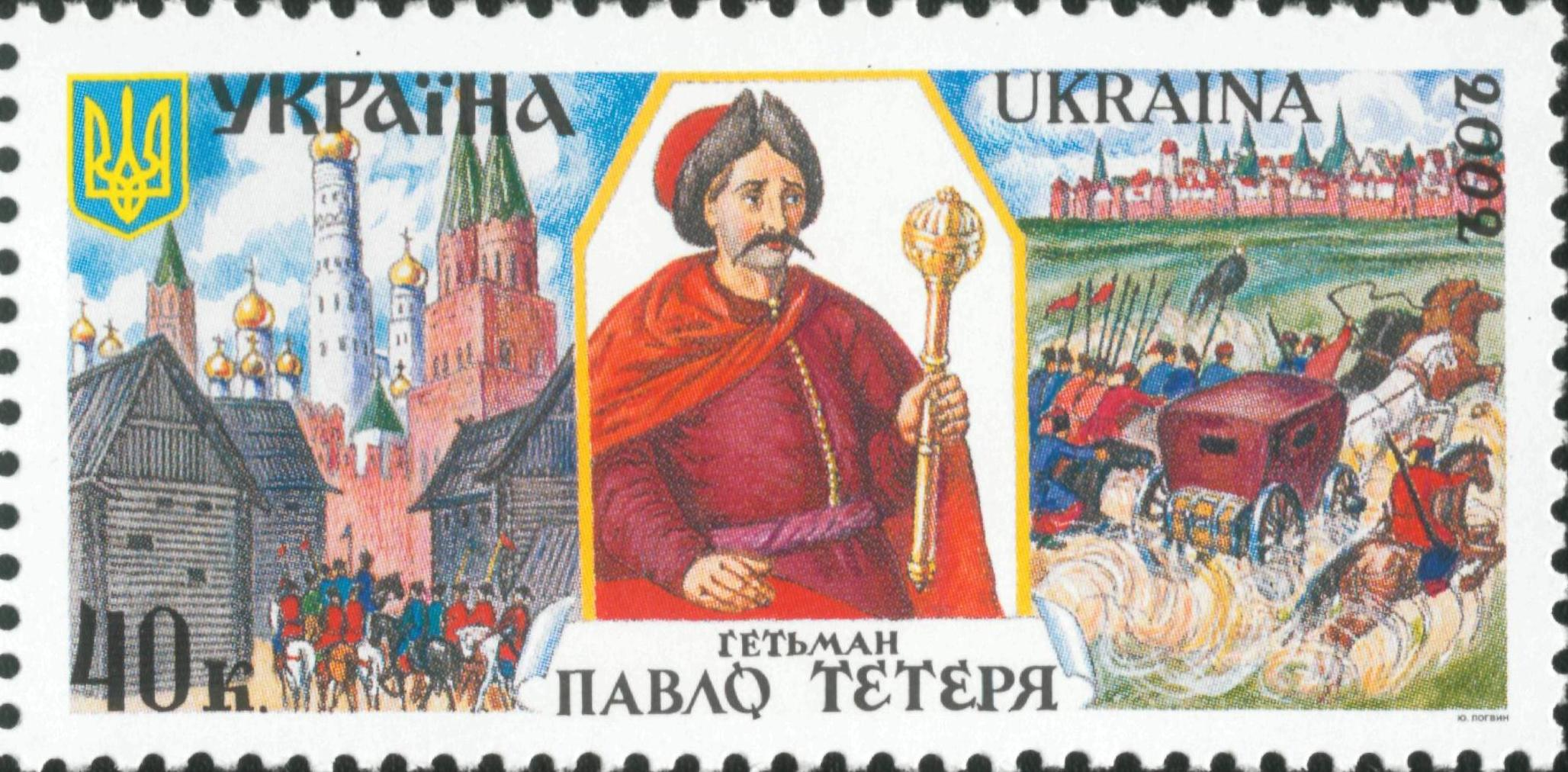 Stamp of Ukraine Марка Украины из серии Гетманы Украины. Павел Тетеря